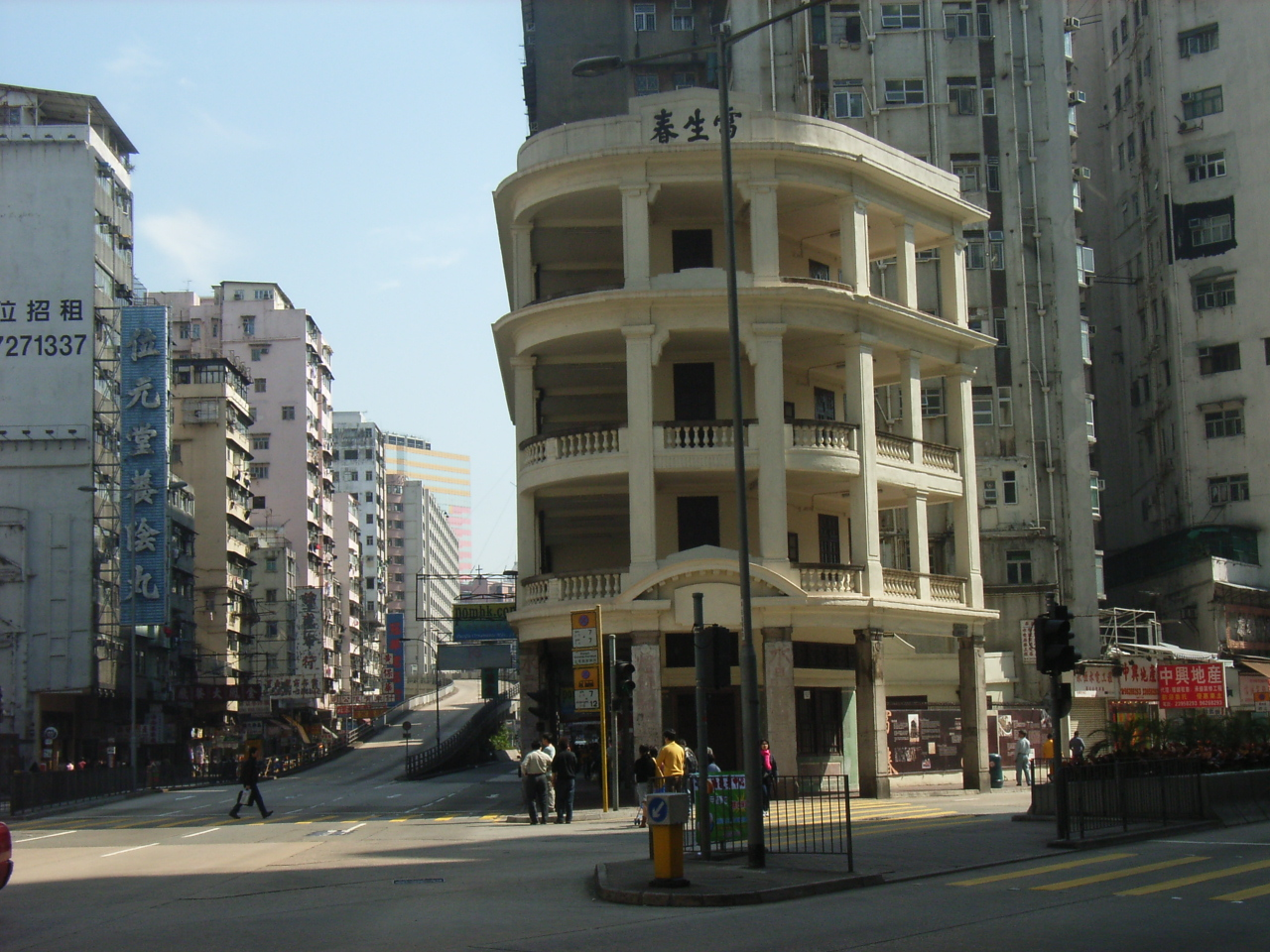 雷生春 位於zh:香港九龍旺角zh:荔枝角道及zh:塘尾道交界 Lui Seng Chun (雷生春) is a historical 4-story building on 119 Lai Chi Kok Road, Hong Kong. Photo by User:OLAMB.